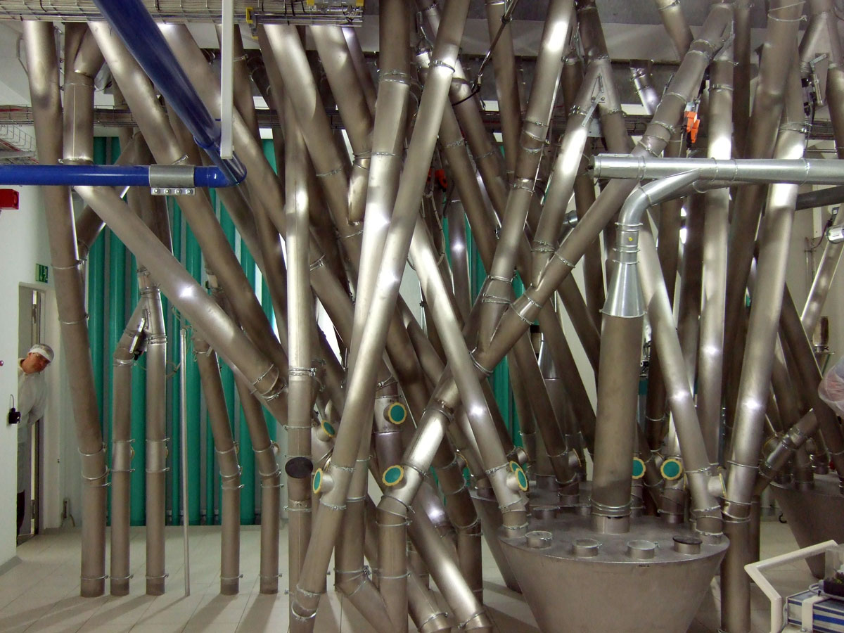 (gravity) spouting in a grain mill